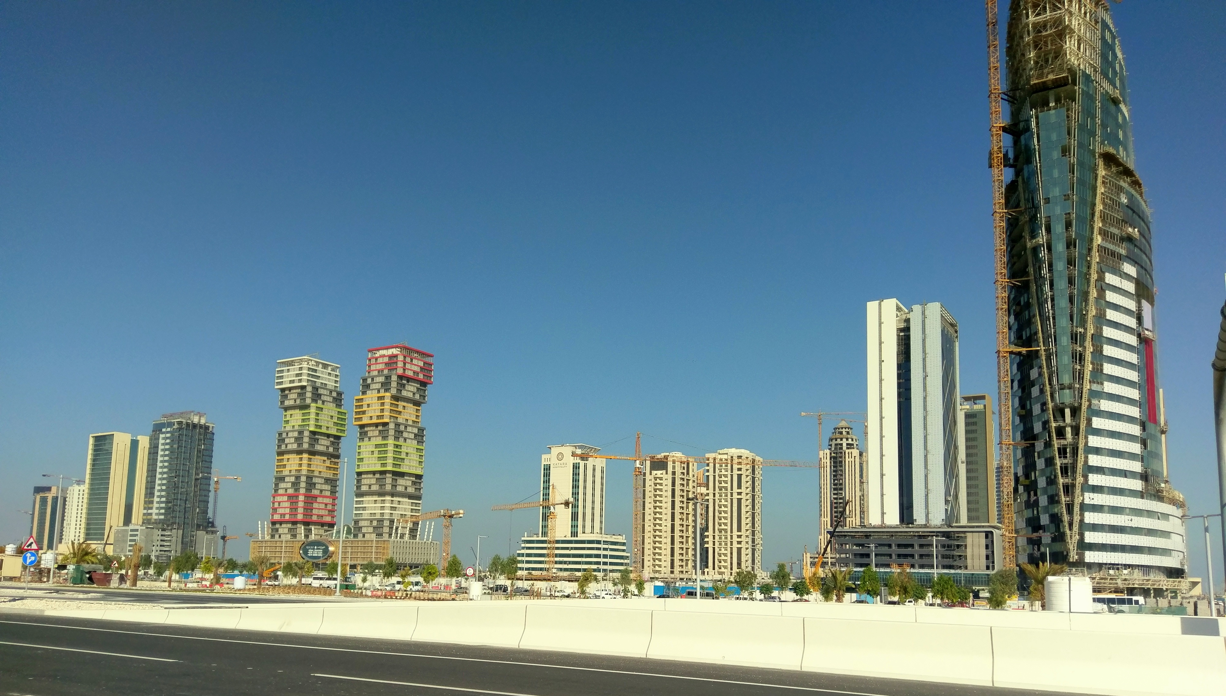 Lusail, Qatar